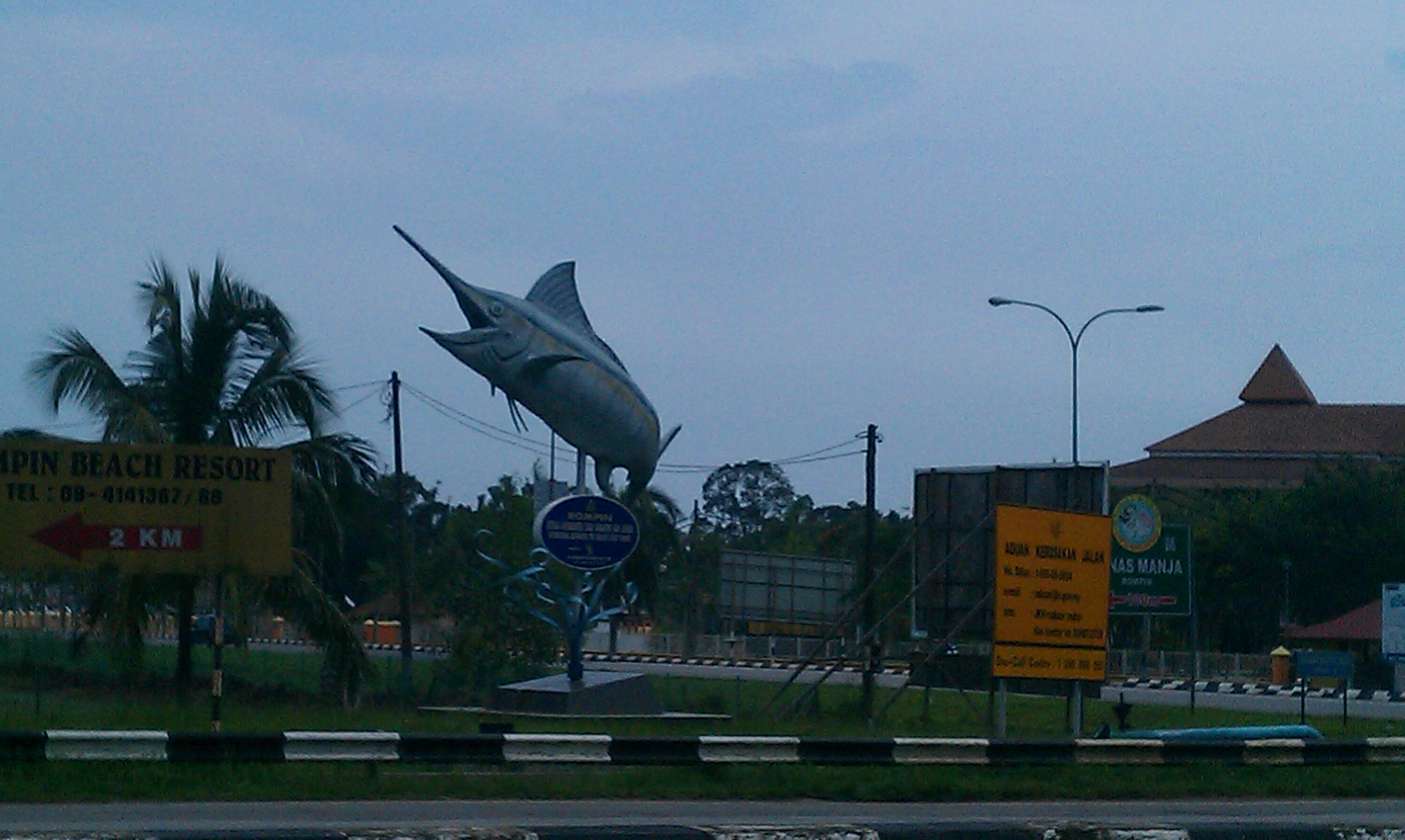 Sport Fishing at Rompin